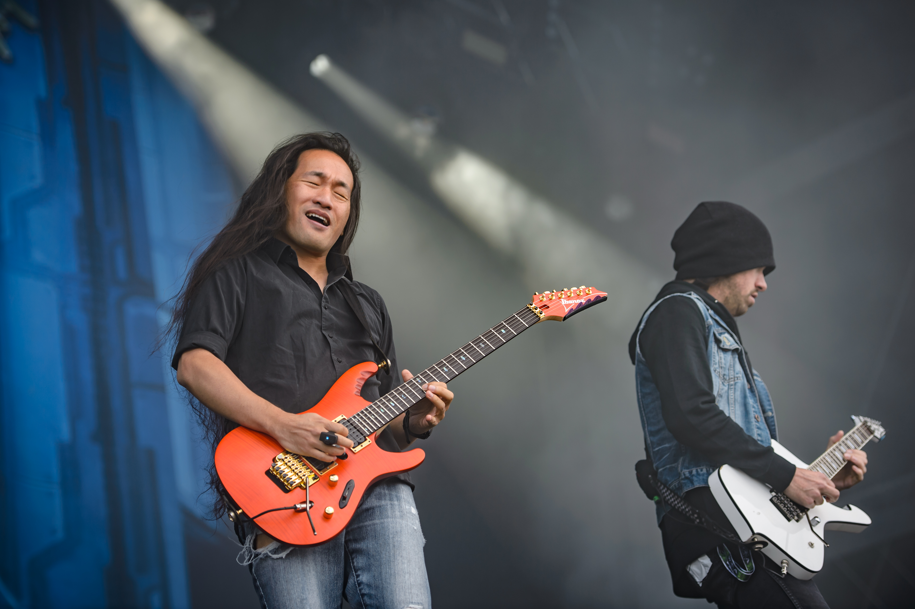 DragonForce; Wacken Open Air 2016